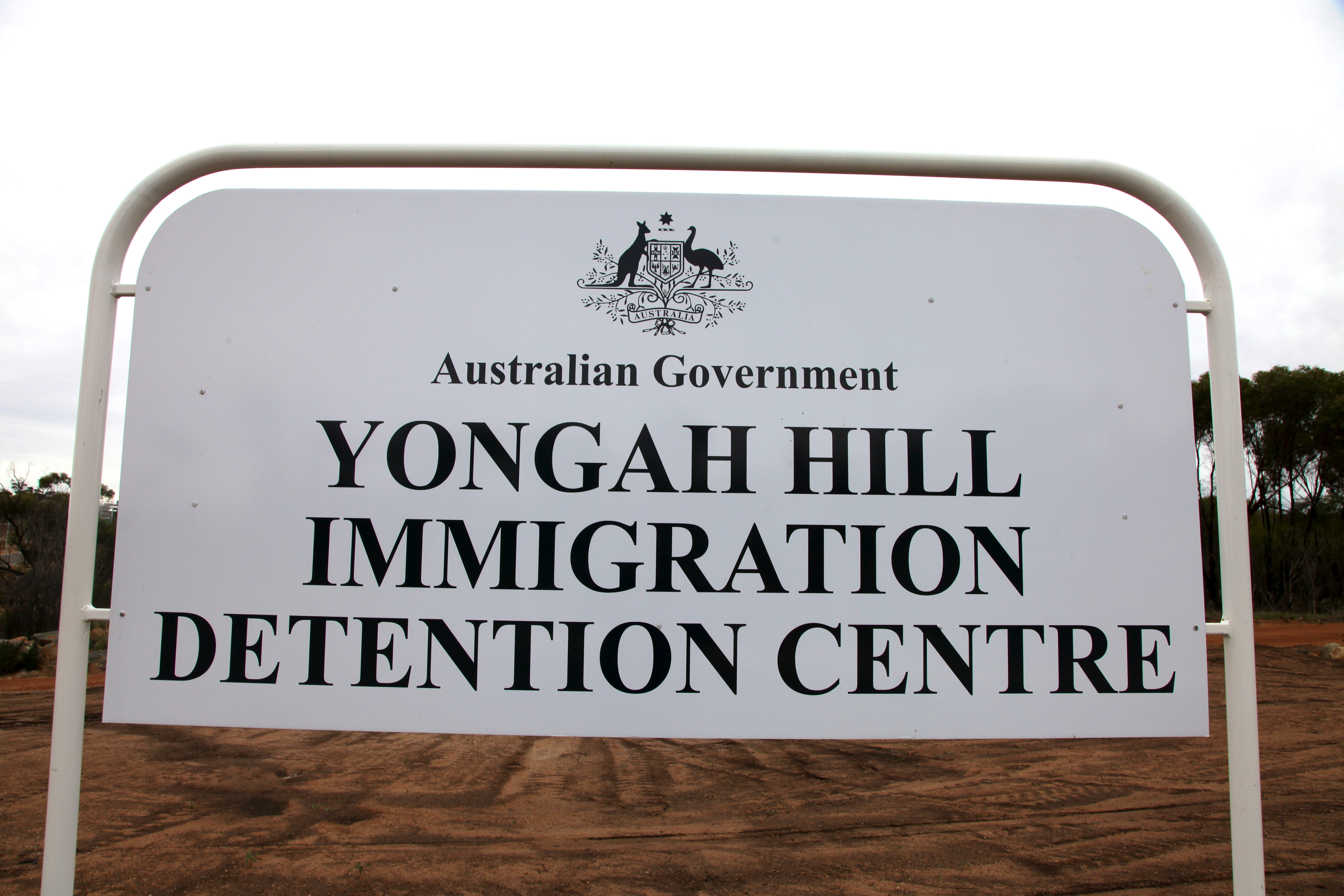 Yongah Hill Immigration Detention Centre